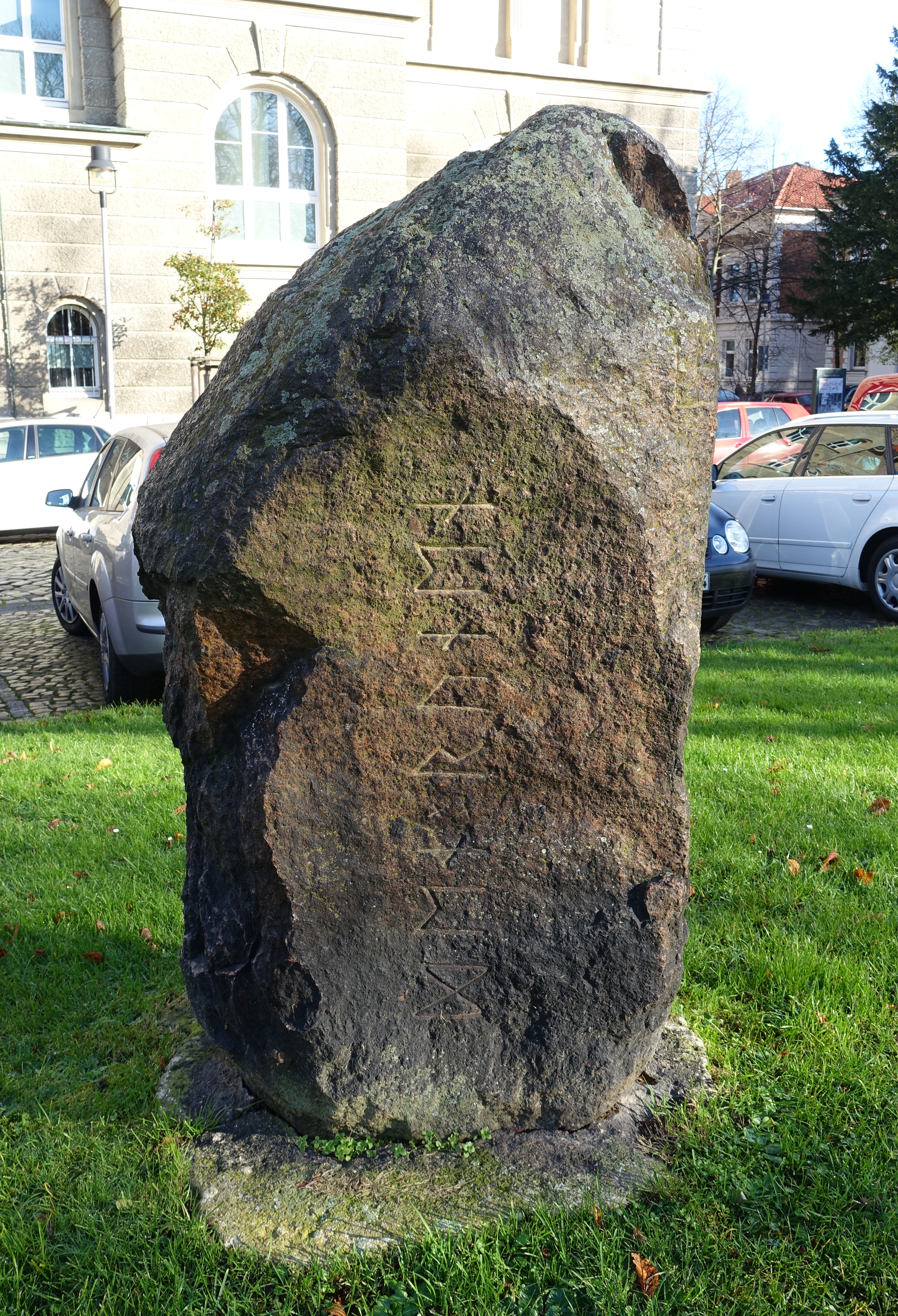 Runestone (Runenstein) - Haus am Löwenwall, Städtisches Museum - Braunschweig, Germany.